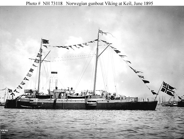 THe Norwegian gunboat HNoMS Viking. Dressed with flags at Kiel, Germany, during ceremonies marking the opening of the Kiel Canal, June 1895. Official US Naval photo.